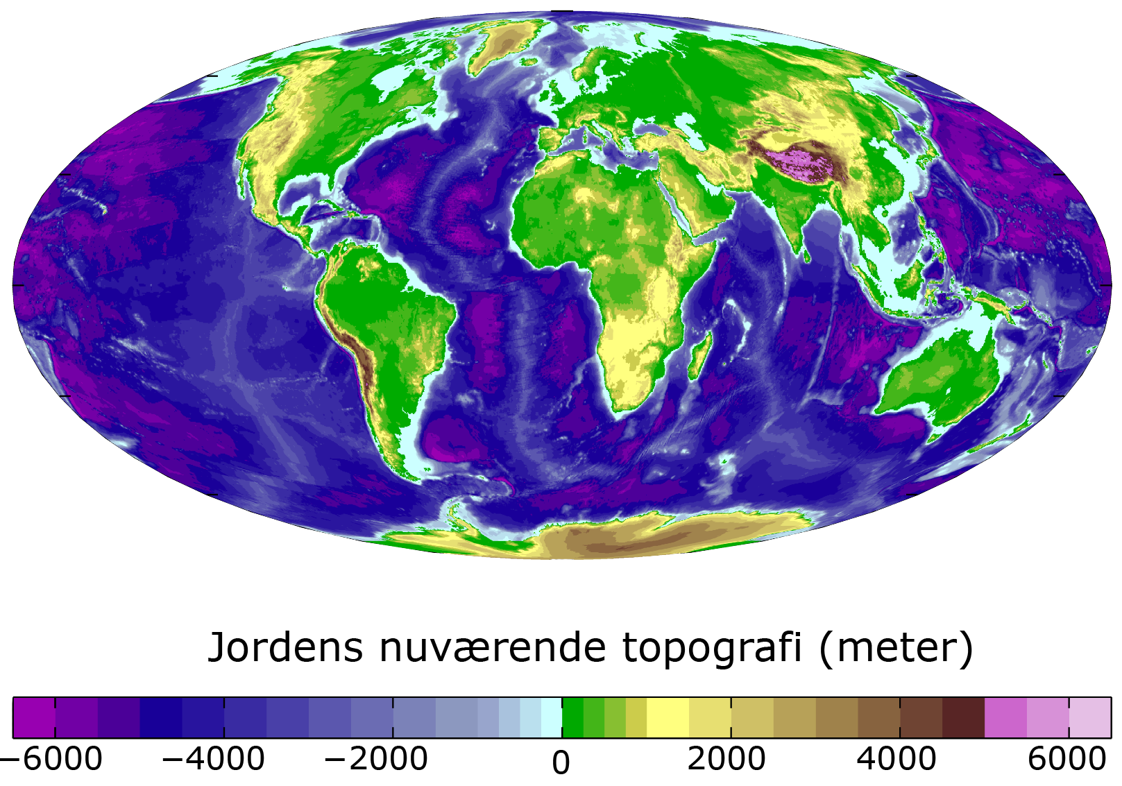 Present day Earth altimetry and bathymetry at 15 minute horizontal resolution. Derived from the National Geophysical Data Center's TerrainBase Digital Terrain Model (v1.0). The original dataset is at 5 minute resolution, and this has been averaged down to 15 minute resolution. It is plotted here using a Mollweide projection (using MATLAB and the M_Map package).